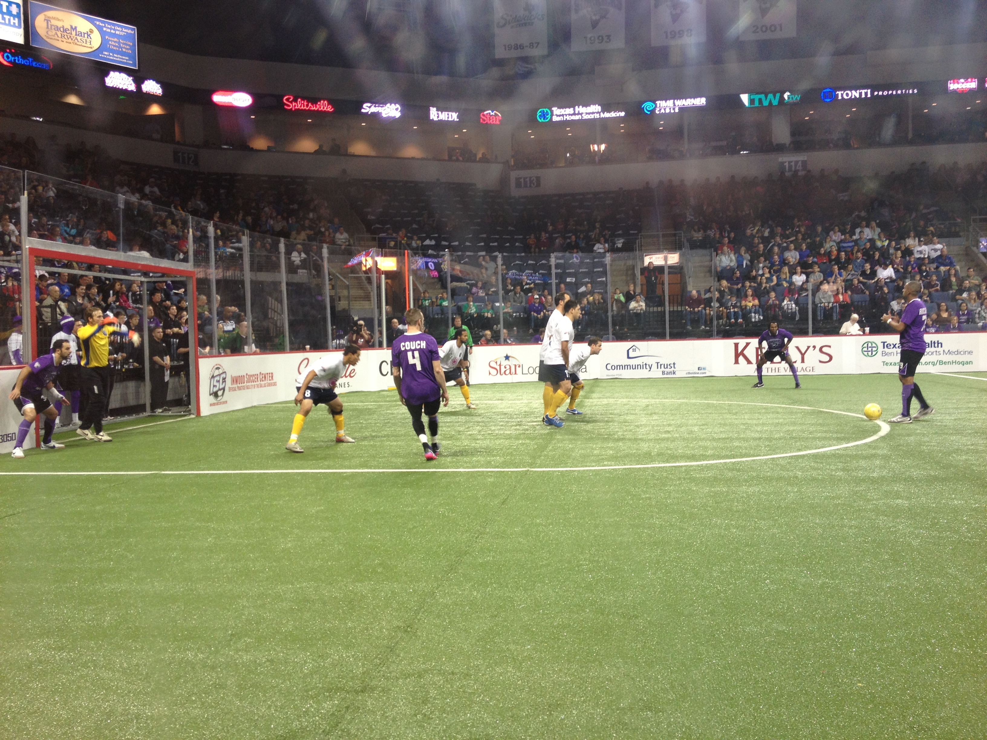 An action shot from the January 27, 2013, Professional Arena Soccer League match between the Dallas Sidekicks and the San Diego Sockers at the Allen Event Center in Allen, Texas.